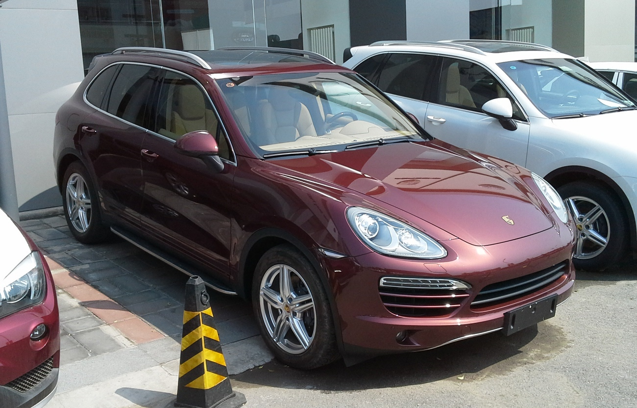 Porsche Cayenne - Type 958 - photographed in Beijing, China.